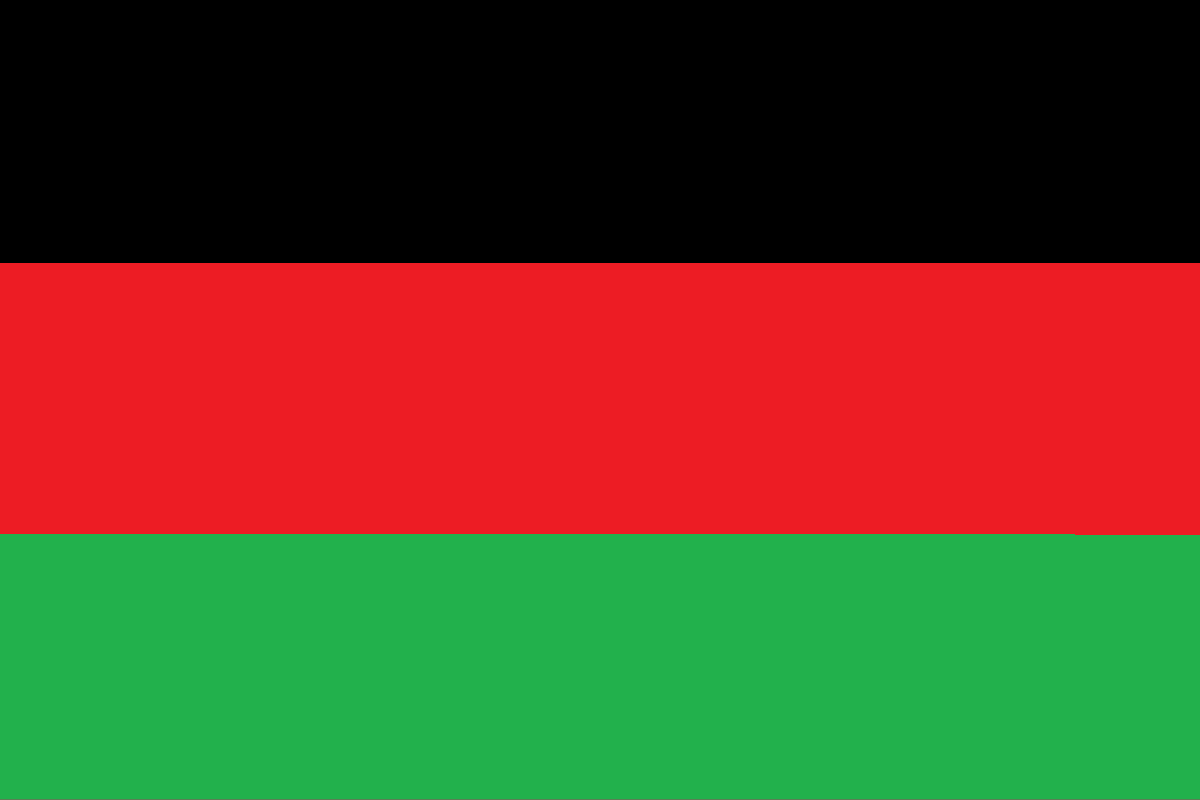 The tricolour flag of the Kenya African Union. Based on the three colours widely used in the Pan-African movement, it featured black at the top, red in the middle, and green at the bottom. It was selected by the Kenyan anti-colonialist activist Jomo Kenyatta in October 1951.